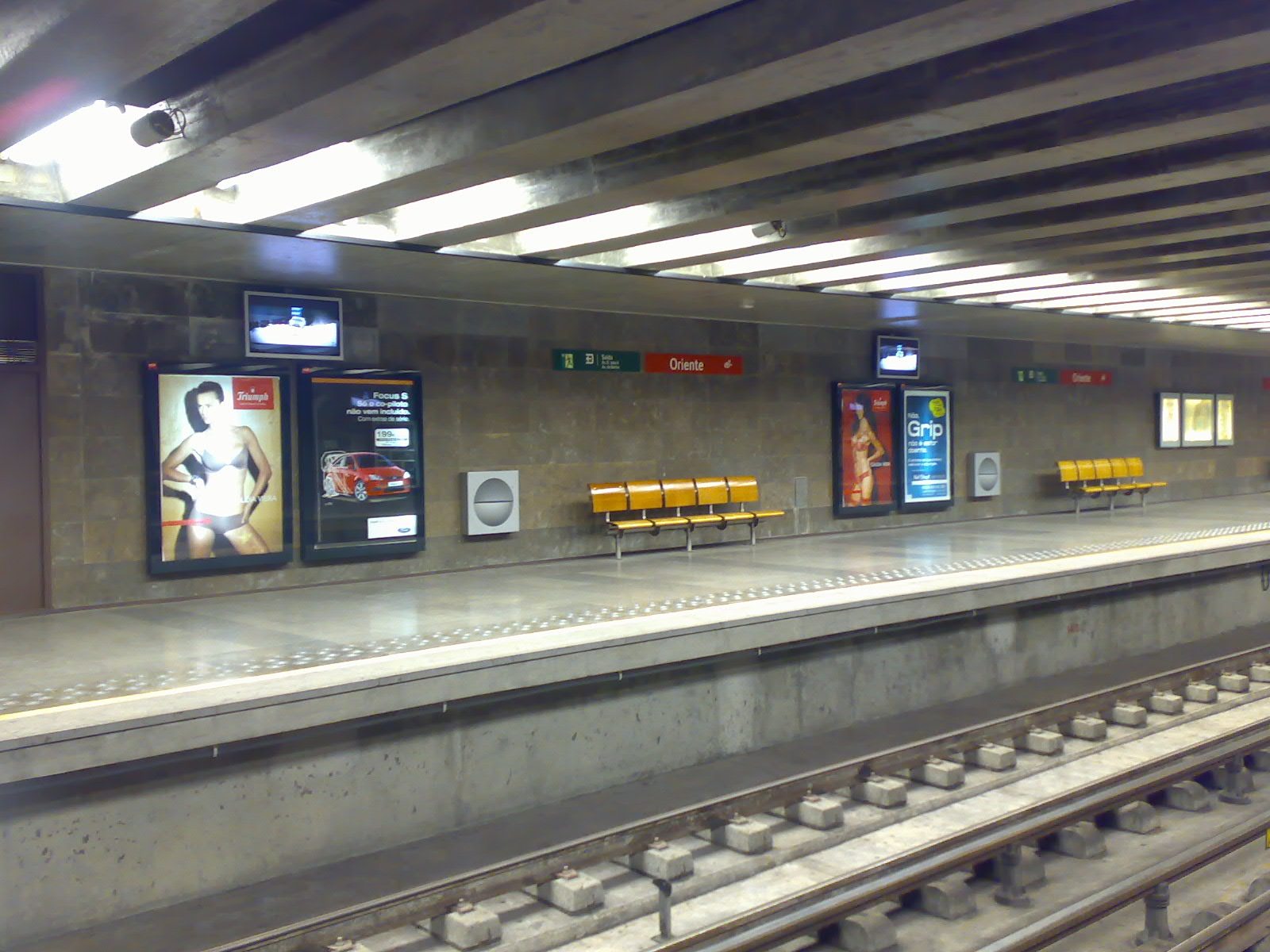 Oriente station on the red line (linhe vermelha) of the Lisbon Metro - taken by me during a recent visit.